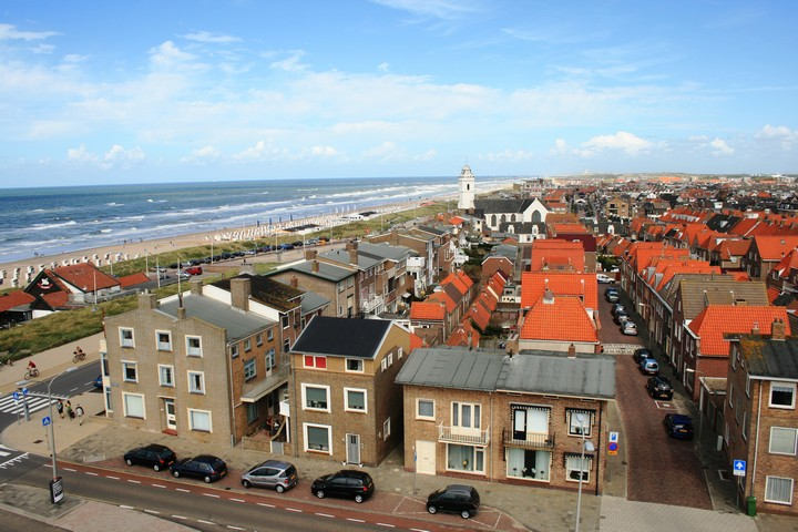 Overview Katwijk aan Zee, The Netherlands